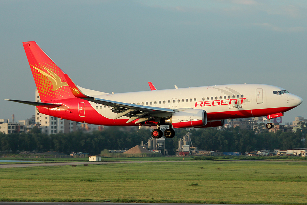 Regent's 73G,Hotel-Delta Landing at VGHS.